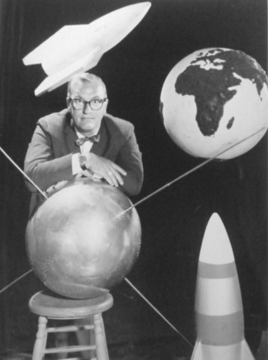 Publicity photo of Dave Garroway for the television show, Wide, Wide World, 1957.